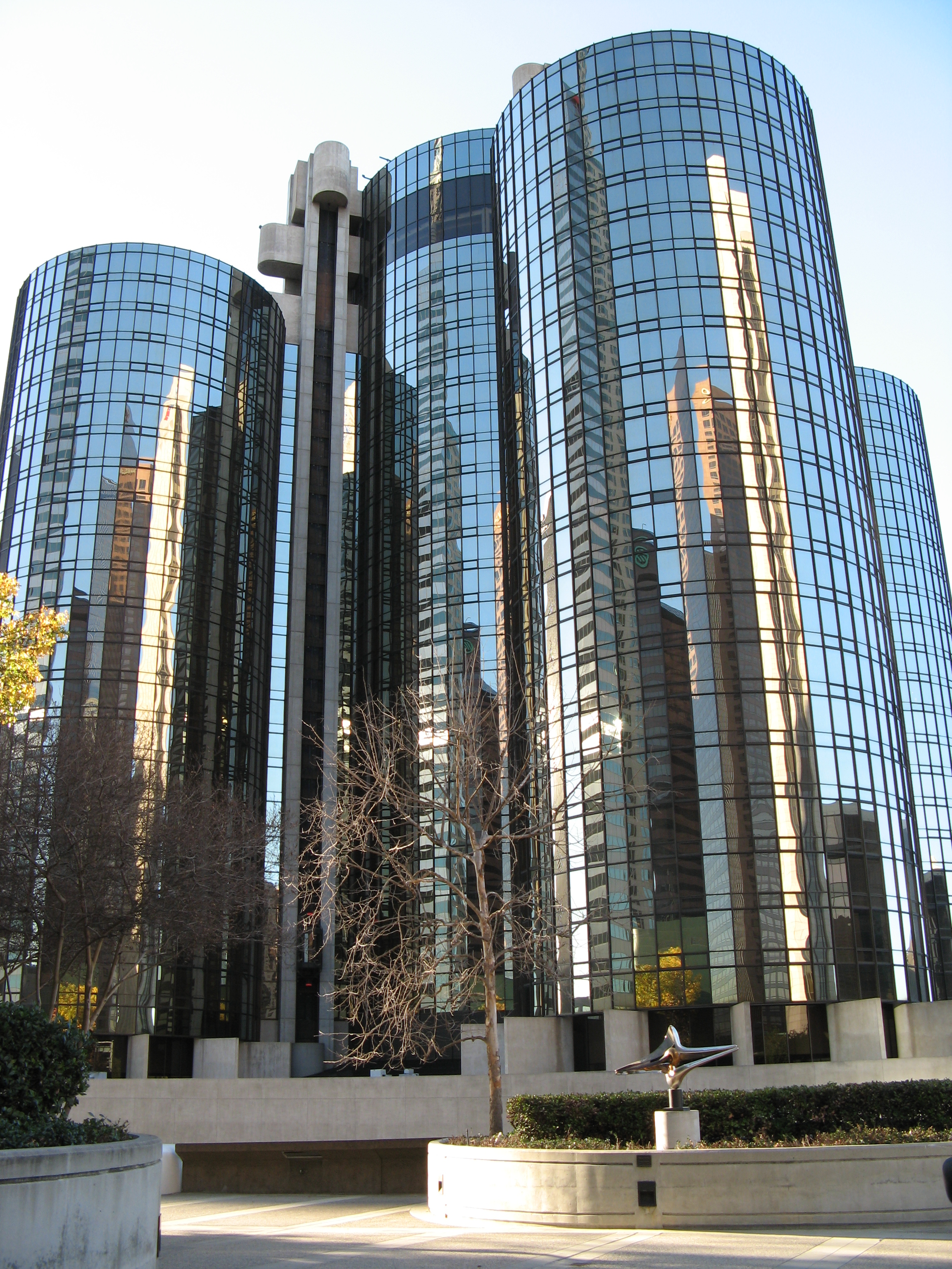 Westin Bonaventure Hotel — as seen from the platform of 444 S. Flower Street, Downtown Los Angeles.